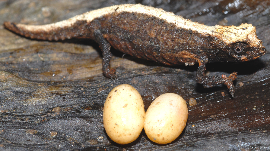 A stress-coloured Brookesia desperata female with a fresh clutch of two eggs.